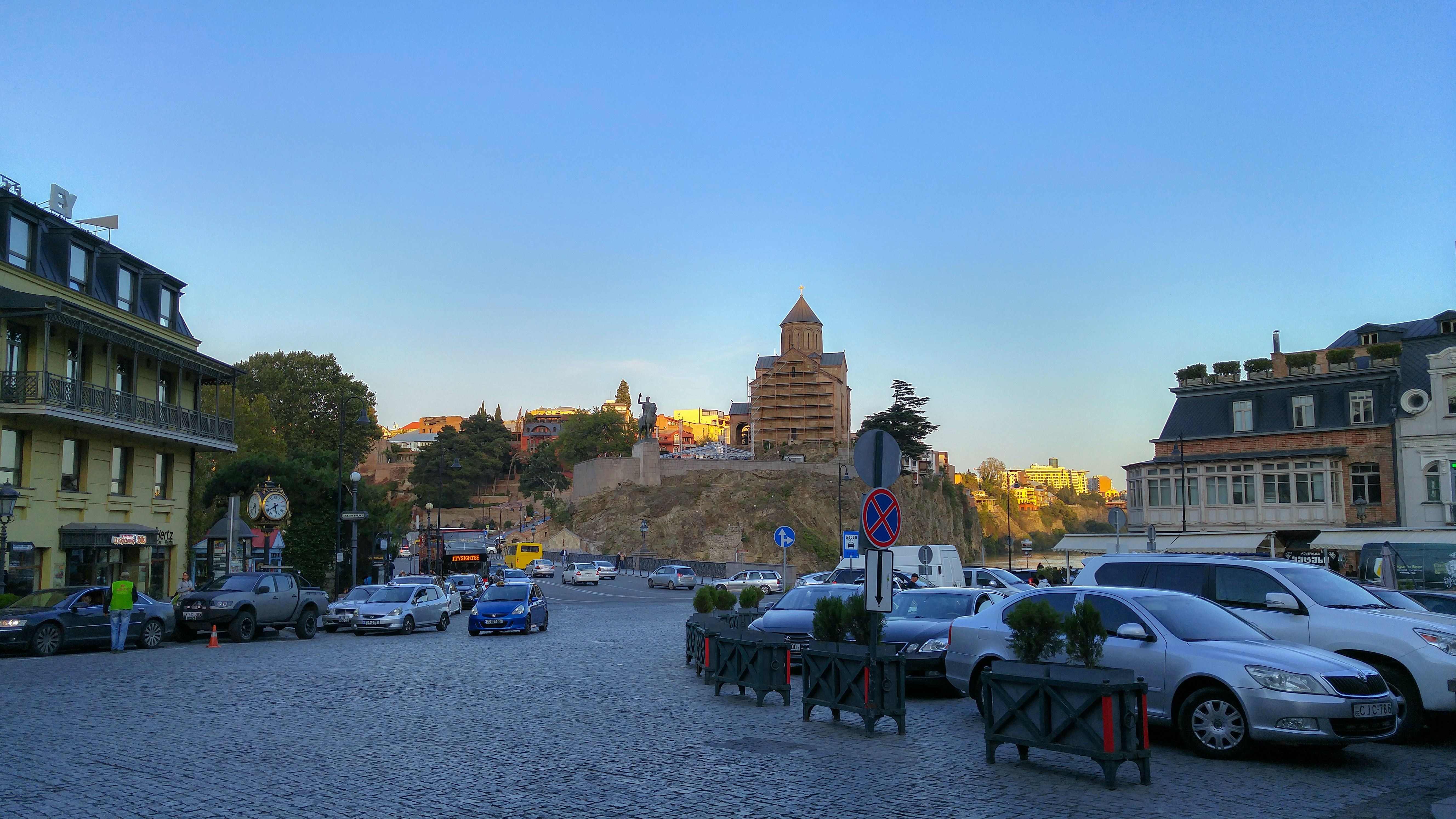 Tbilisi in some countries also still named by its pre-1936 international designation Tiflis is the capital and the largest city of Georgia, lying on the banks of the Kura River with a population of approximately 1.5 million people.